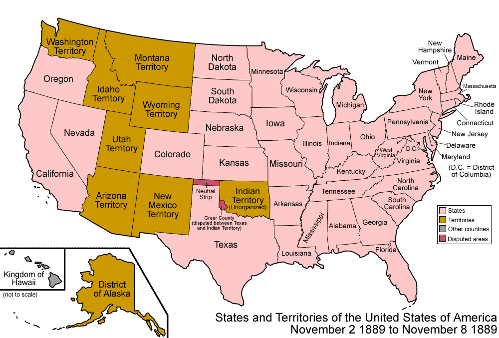 Map of the states and territories of the United States as it was from November 2 1889 to November 8 1889. On November 2 1889, Dakota Territory was split and admitted as the states of North Dakota and South Dakota. On November 8 1889, Montana Territory was admitted as the state of Montana.